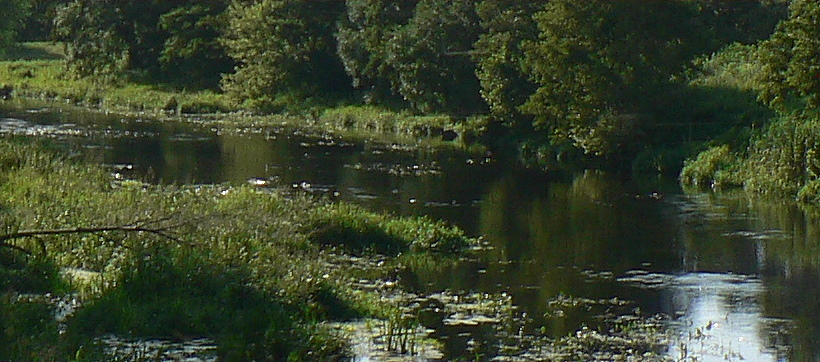 River Wkra in Strzegowo